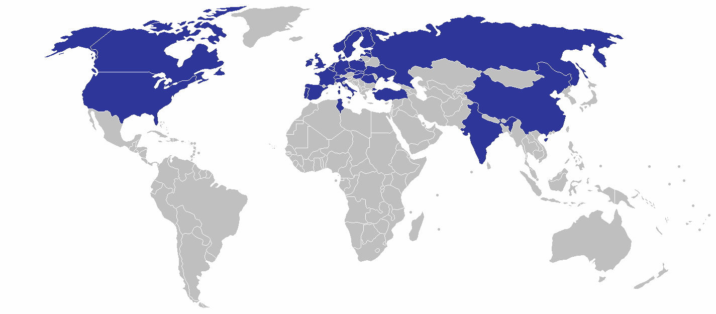 CRH global productions sites.png